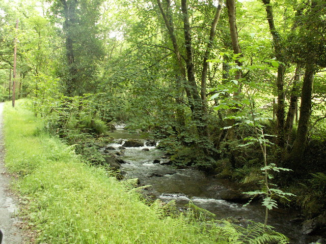 Afon Einion. Afon Einion in Cwm Einion, just East of Pont Tyn y Cwm.